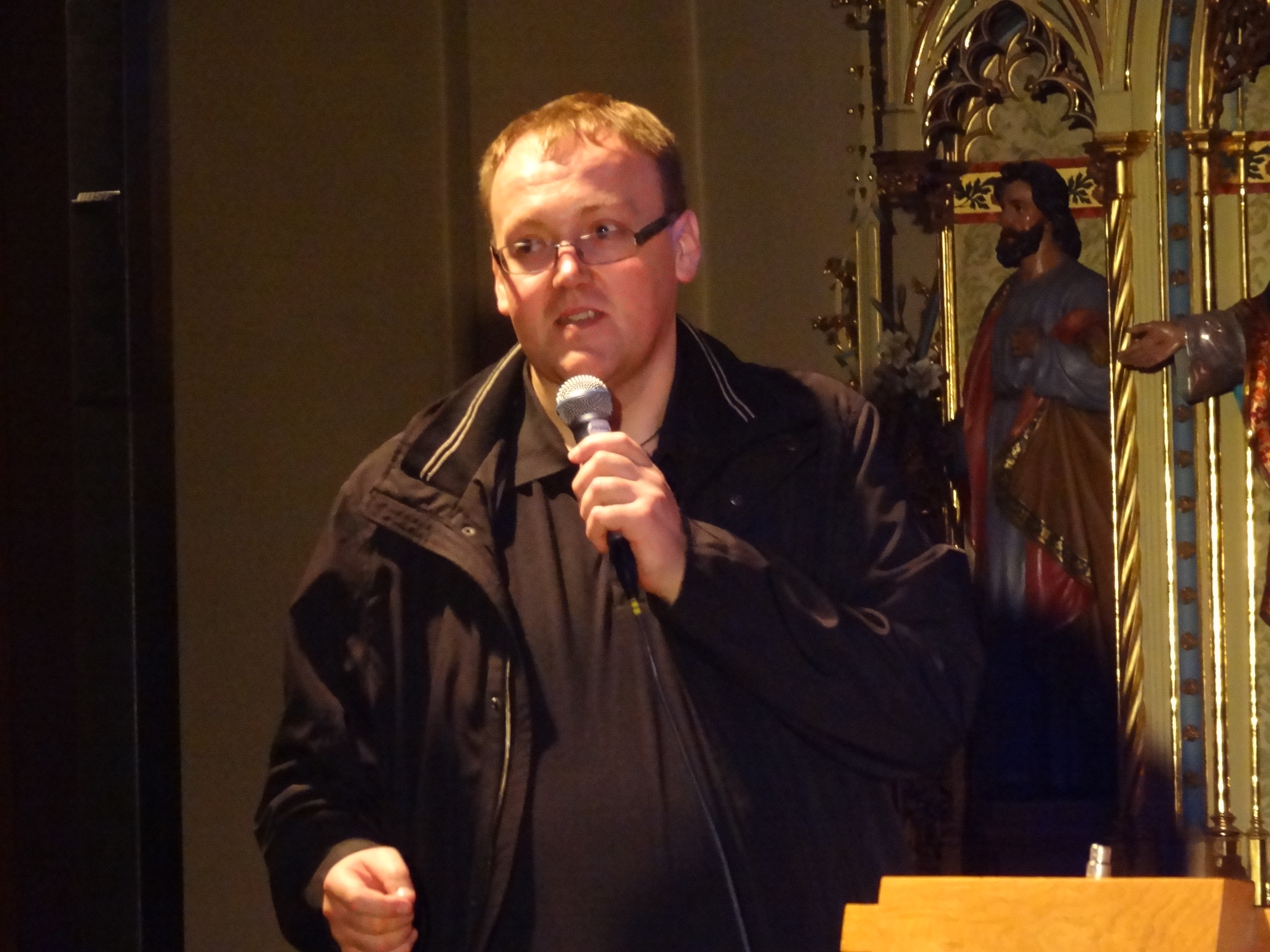 Marko Veršič in Maribor Cathedral. Ocation: The visit of Emanuel (band) with Sanja Doležal, June 1 2014